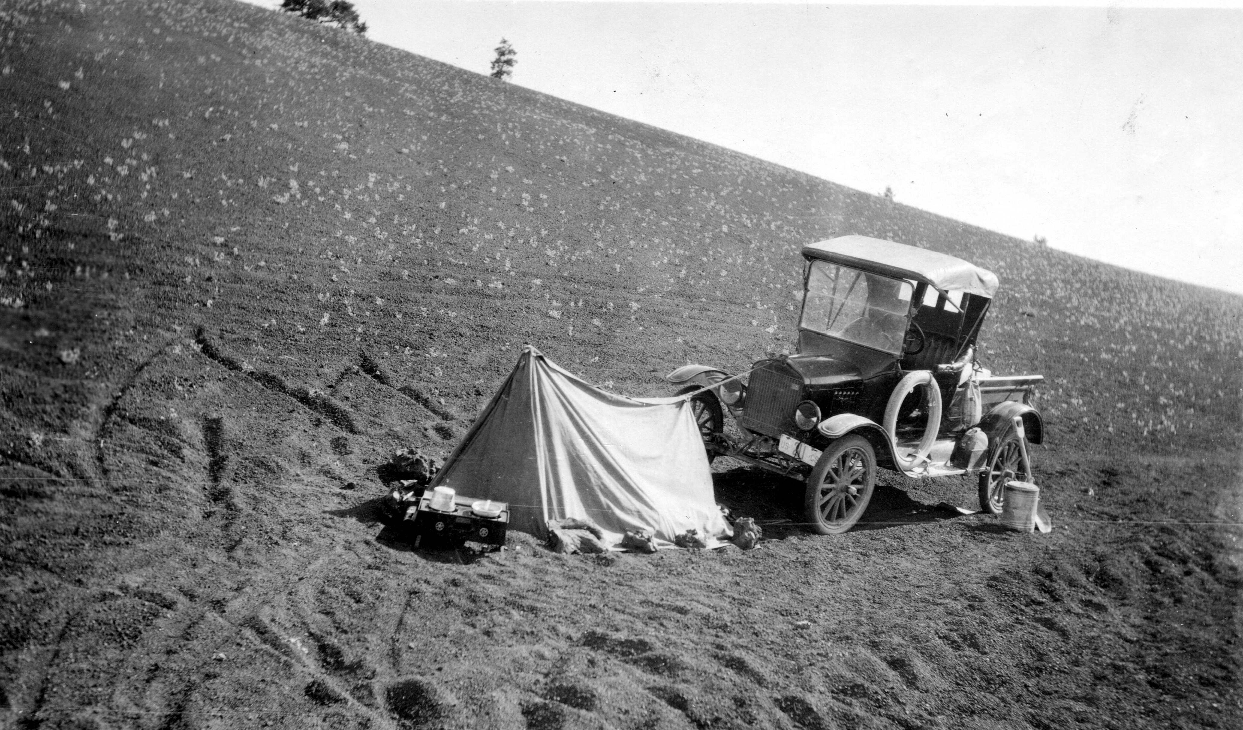 "Craters of the Moon National Monument, Idaho. Picturesque camp made by a lone geologist on the cinders of Inferno. O.E. Meinzer visited the Monument in June 1921 and made preliminary plans for a geological survey of the area." Shows encampment with Model-T pickup truck and small tent with rope attached to auto radiator to help support it.